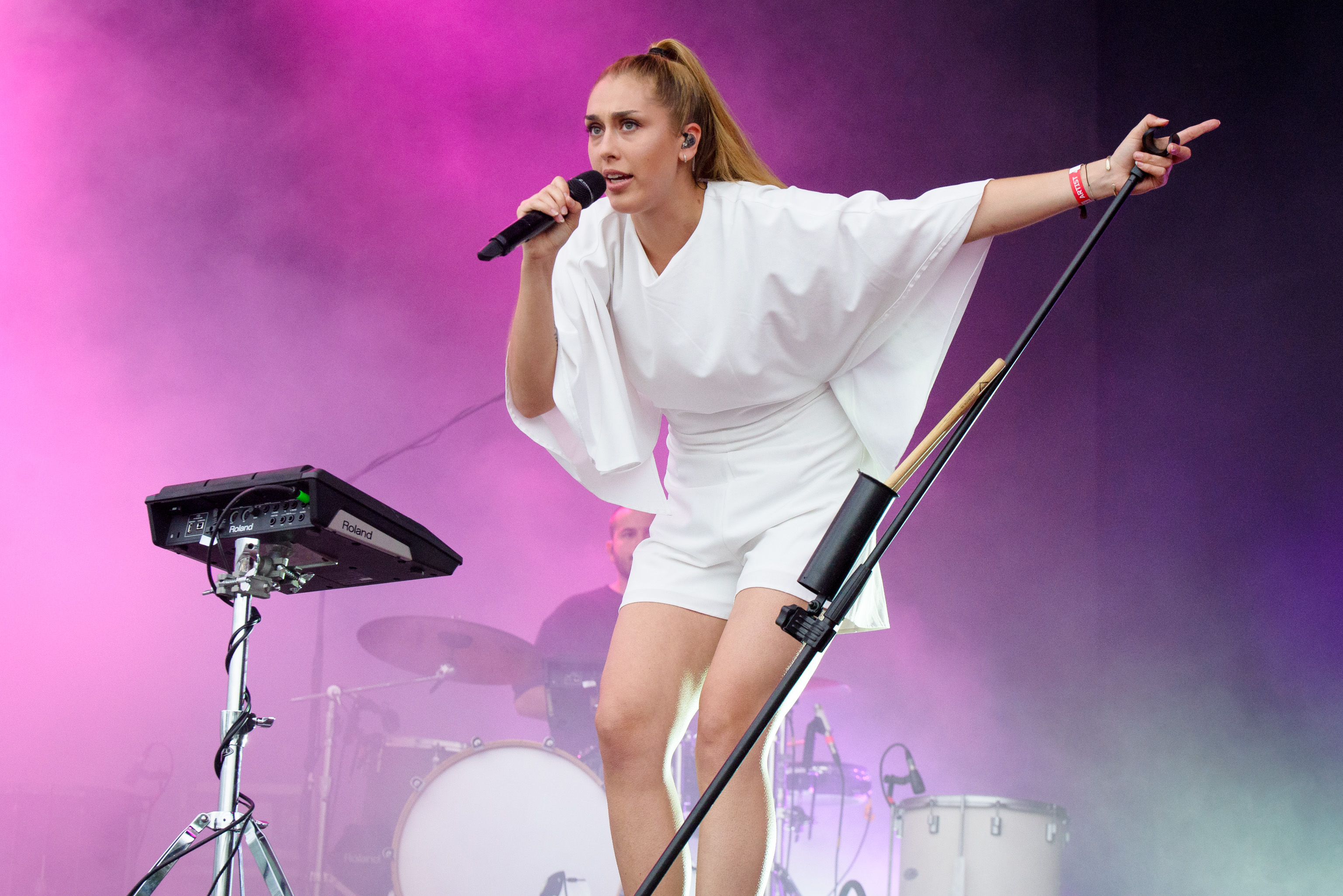 Claire Live @ Utopia Festival 2016